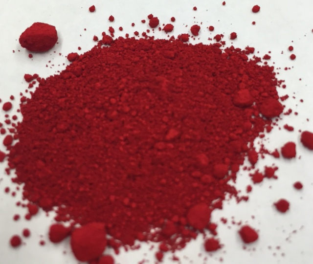 Sample of perylenetetracarboxylic dianhydride